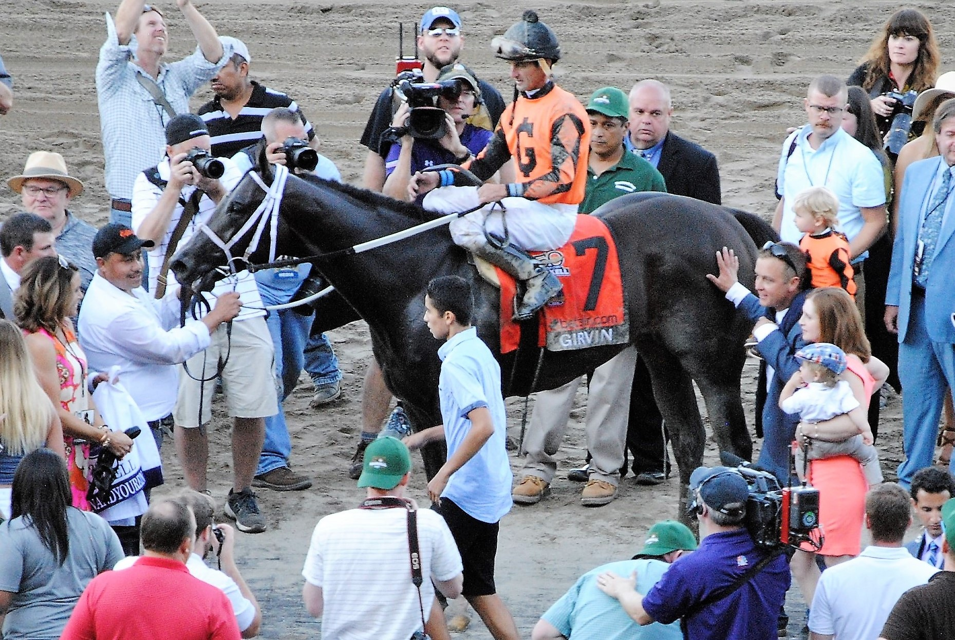 Girvin and his connections after winning the 2017 Haskell Invitational at Monmouth Park. Trainer Joe Sharp, his wife Rosie Napravnik and their two children to the right, jockey Robbie Albarado